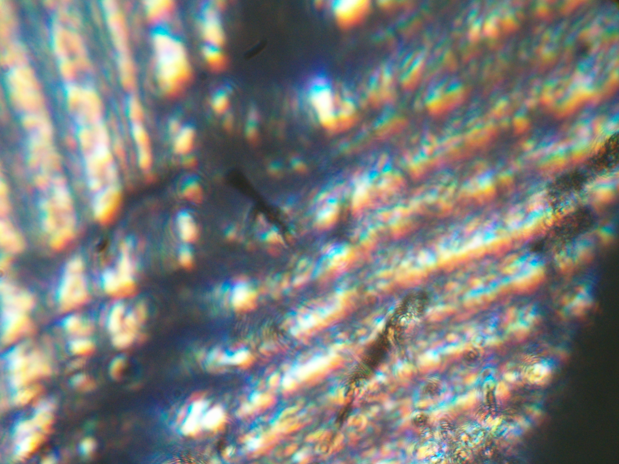 A common bird feather, 1400 X